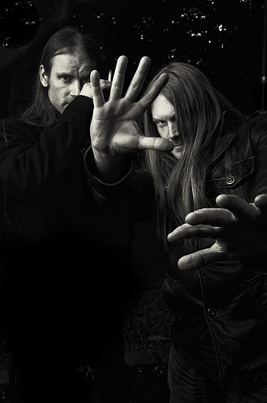 Hoest of Taake and Nocturno Culto of Darkthrone